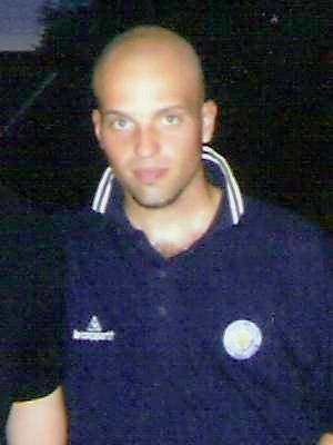 Photo of Arnar Gunnlaugsson taken between Leicester City Resereves Vs. Coventry City Reserves at The Lamb Ground in Tamworth, Staffordshire.